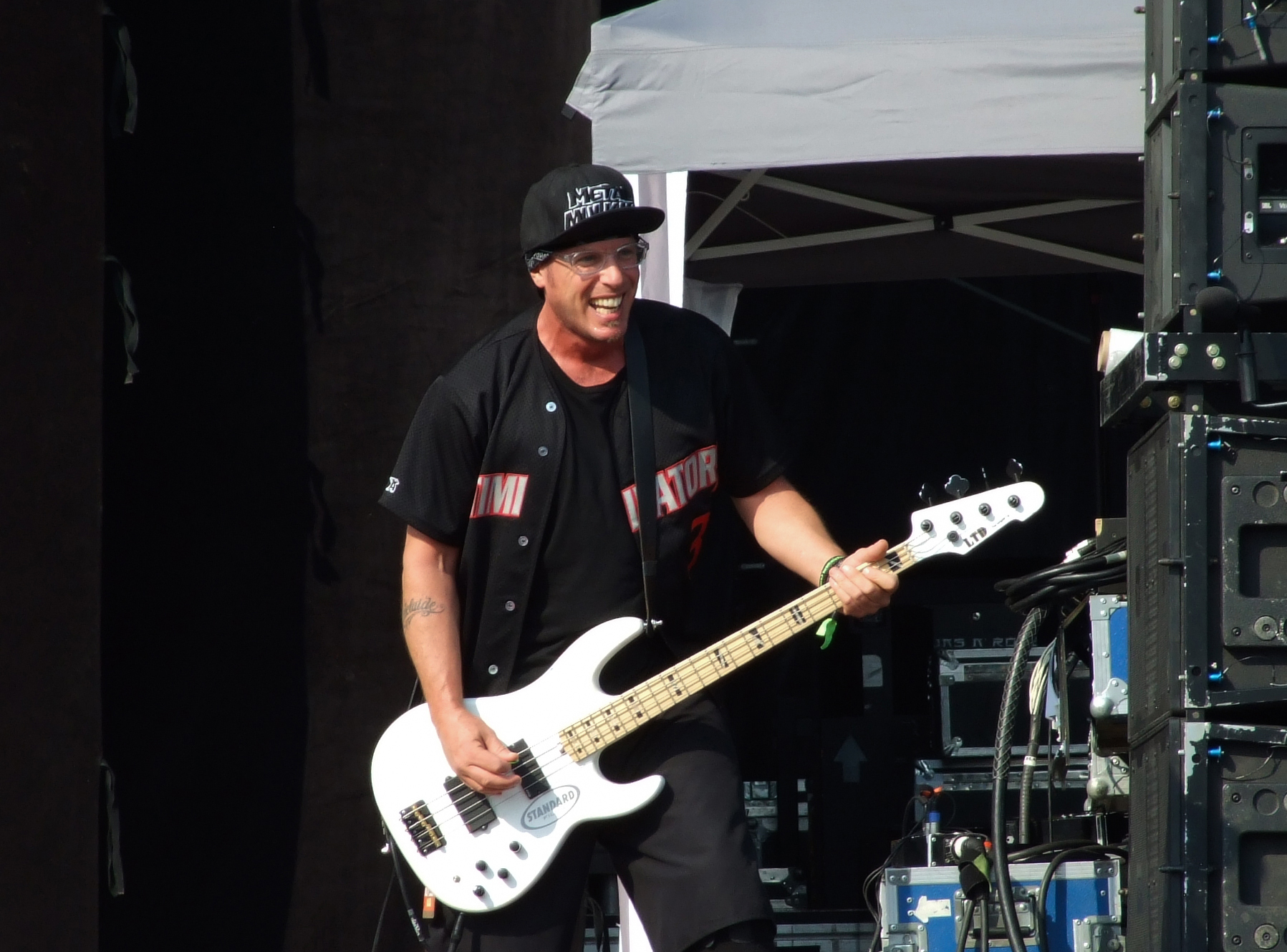 Cordell Crockett, bass guitarist of the American rock band Ugly Kid Joe, performing at Sofia Rocks Fest 2012, Bulgaria.